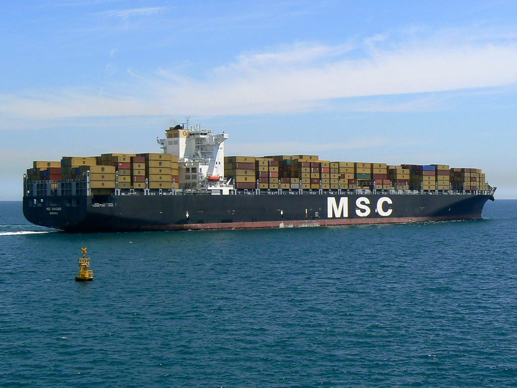 Leaving from Valencia Port on 07/05/2007. Gross tonnage : 107849 Year of build : 2005 Flag : Liberia Dimensions : 336,70 x 45,60 x 15,00 m TEU : 9178 Reefer Points : 700 Shipbuilder : Samsung Heavy Industries Co Ltd - Geoje. Yard No. 1510 Name of ship : MSC CHICAGO, 2005/11.